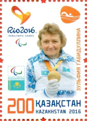 1031-1032. Sport” on the theme of “XV Paralympic Games in Rio de Janeiro